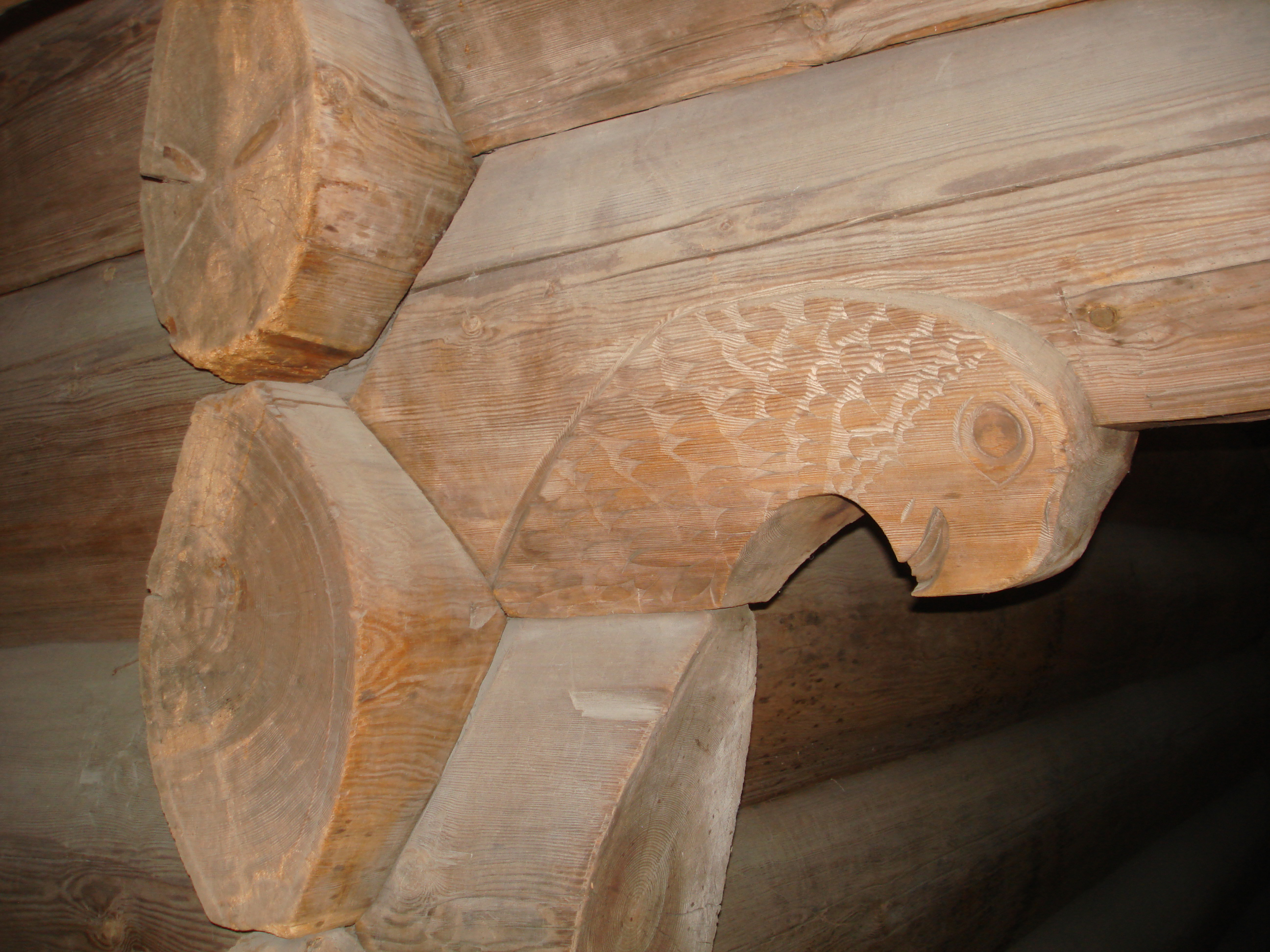 Ornamental woodcarving in the shape of en eagle's head on a projecting log in the wall of the loft from Ose at Norsk Folkemuseum.